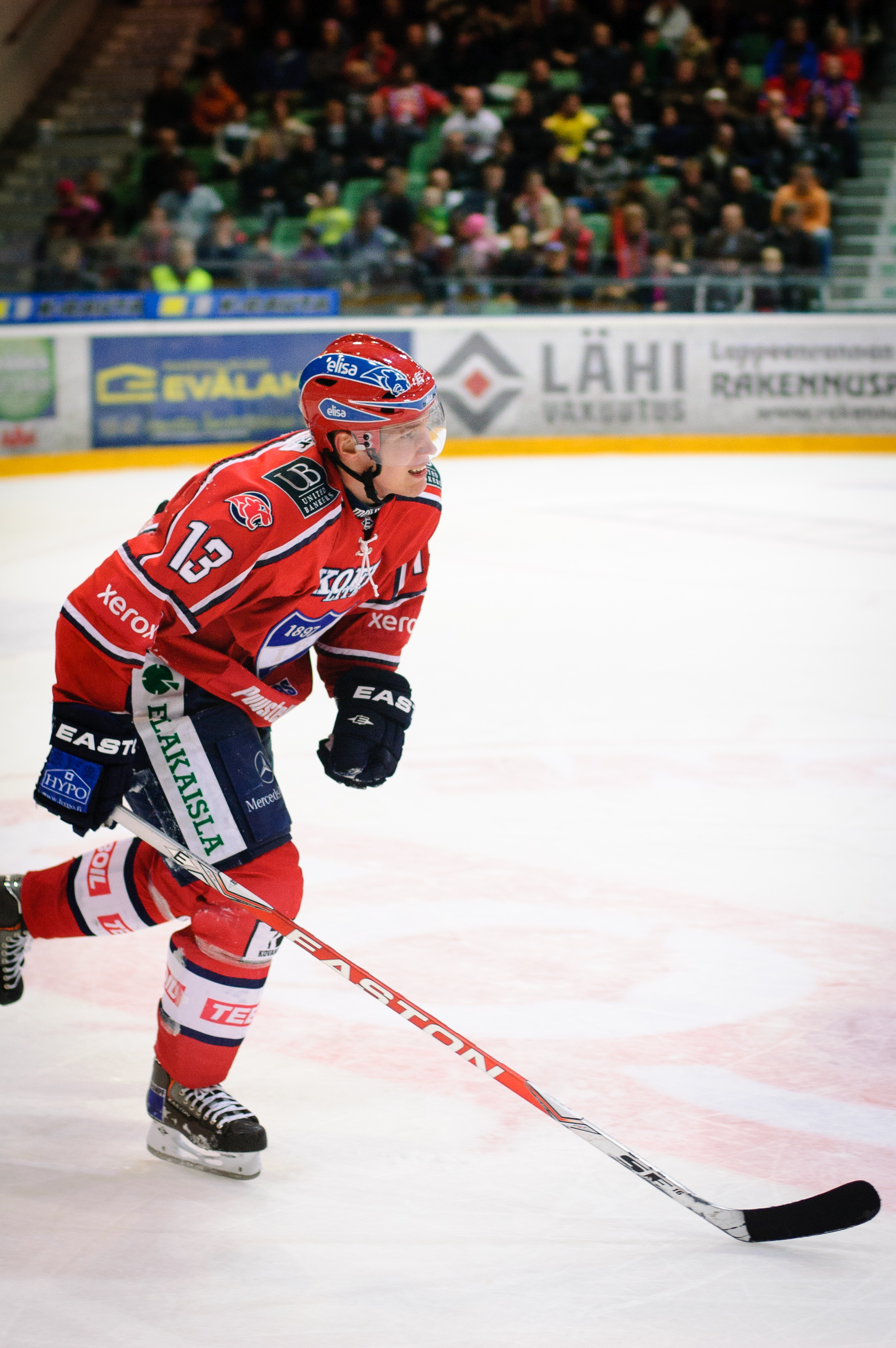 Finnish ice hockey player Petteri Wirtanen playing for IFK Helsinki against SaiPa Lappeenranta in the Finnish SM-liiga in Lappeenranta, Finland.